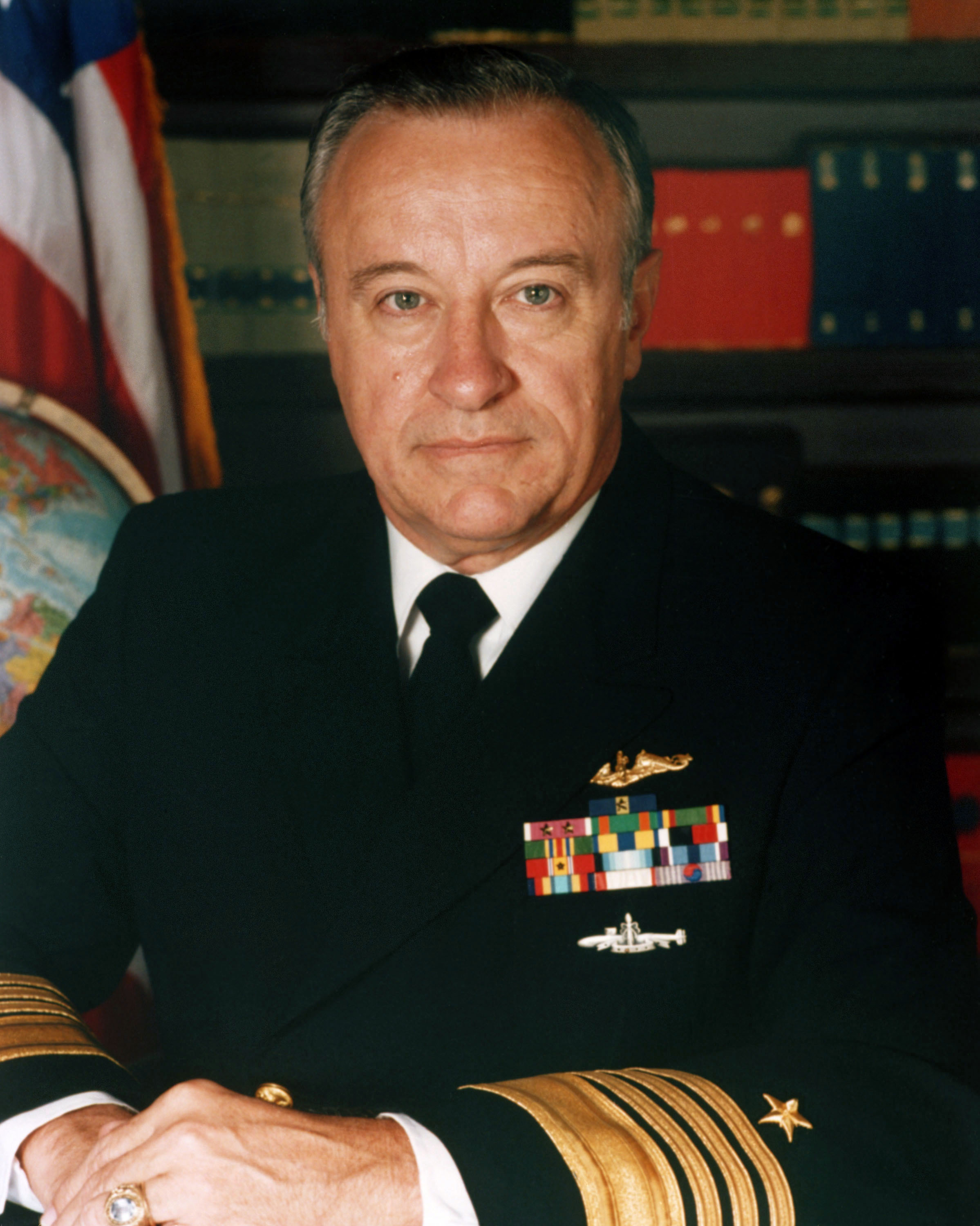 Admiral Carlisle A. H. Trost, former U.S. Navy Chief of Naval Operations.